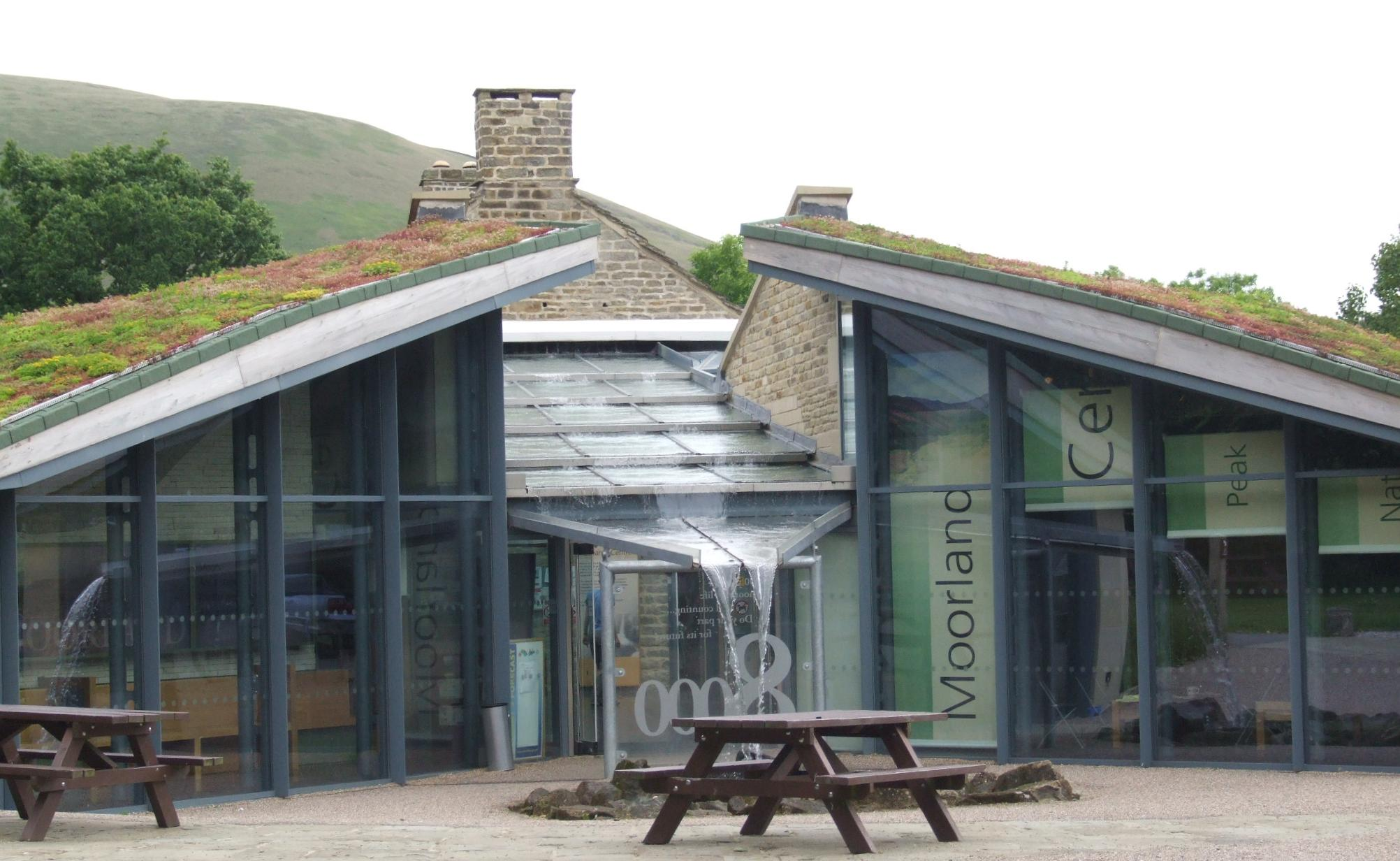 Edale is a small Derbyshire village and Civil parish in the Peak District of England. The Parish of Edale, area 2,844.8ha is in the Borough of High Peak. The Moorland Centre with reflections in both windows of the water feature. - OpenStreetMap (Info)